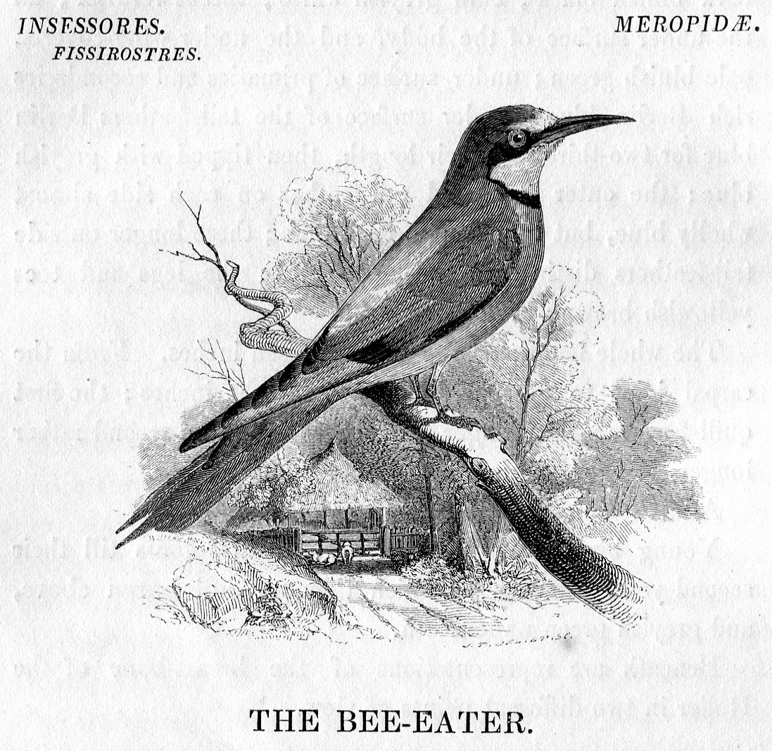 "The Bee-Eater" from A History of British Birds by William Yarrell, 1843. Inaccurate depiction of legs and feet, should be much shorter and with syndactyl toes